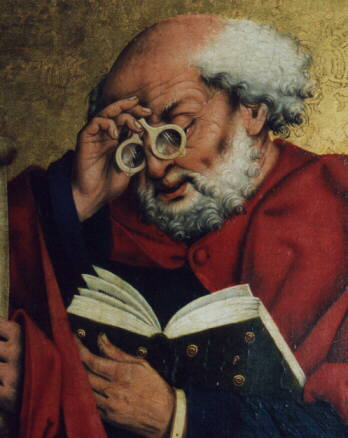 Depiction of a reading Saint Peter with eyeglasses. Detail of the altarpiece by Friedrich Herlin (1466) in the St. Jakob Church in Rothenburg ob der Tauber (Germany).